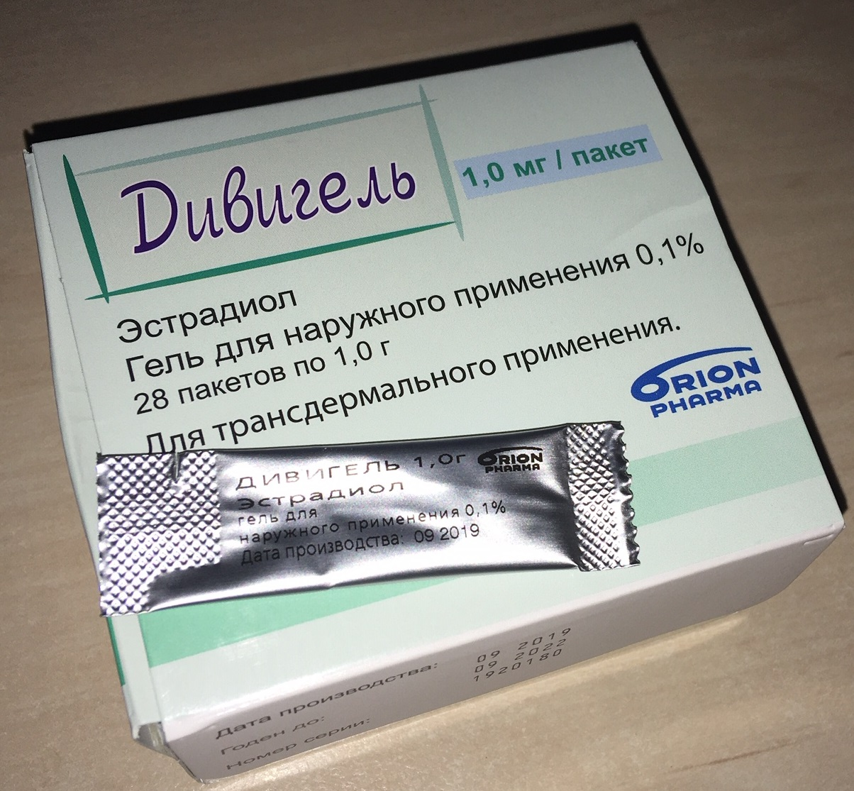 estradiol gel